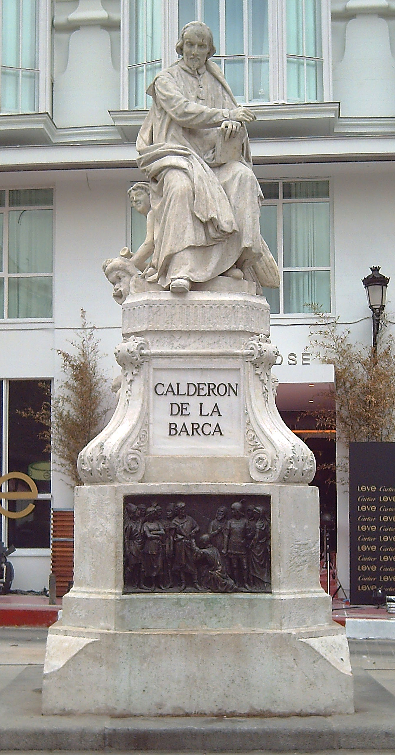 Monument to Pedro Calderón de la Barca (1600–1681) at the Plaza de Santa Ana (square) in Madrid, Spain). Made of marble and bronze by Joan Figueras Vila (1829–1881) in 1878 and inaugurated in 1880.